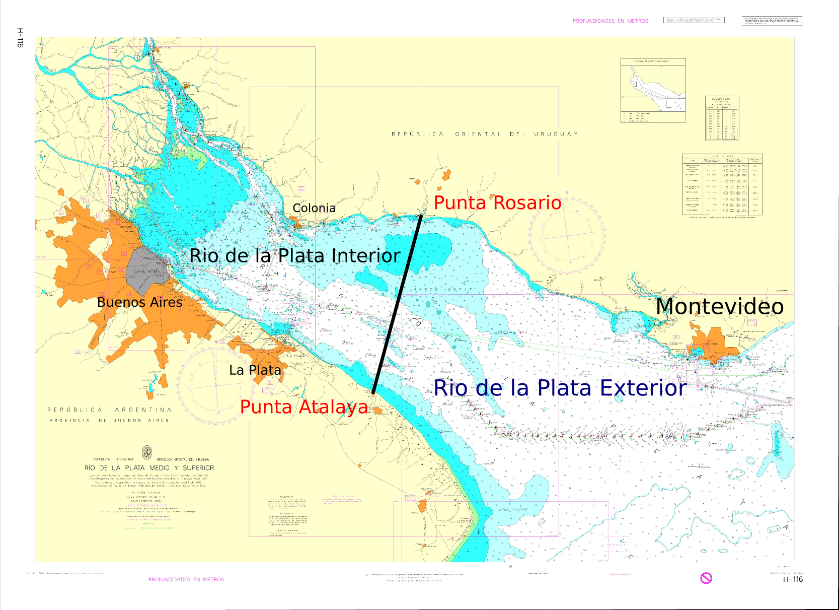 area navigation for Timonel, brevet Prefectura naval argentina